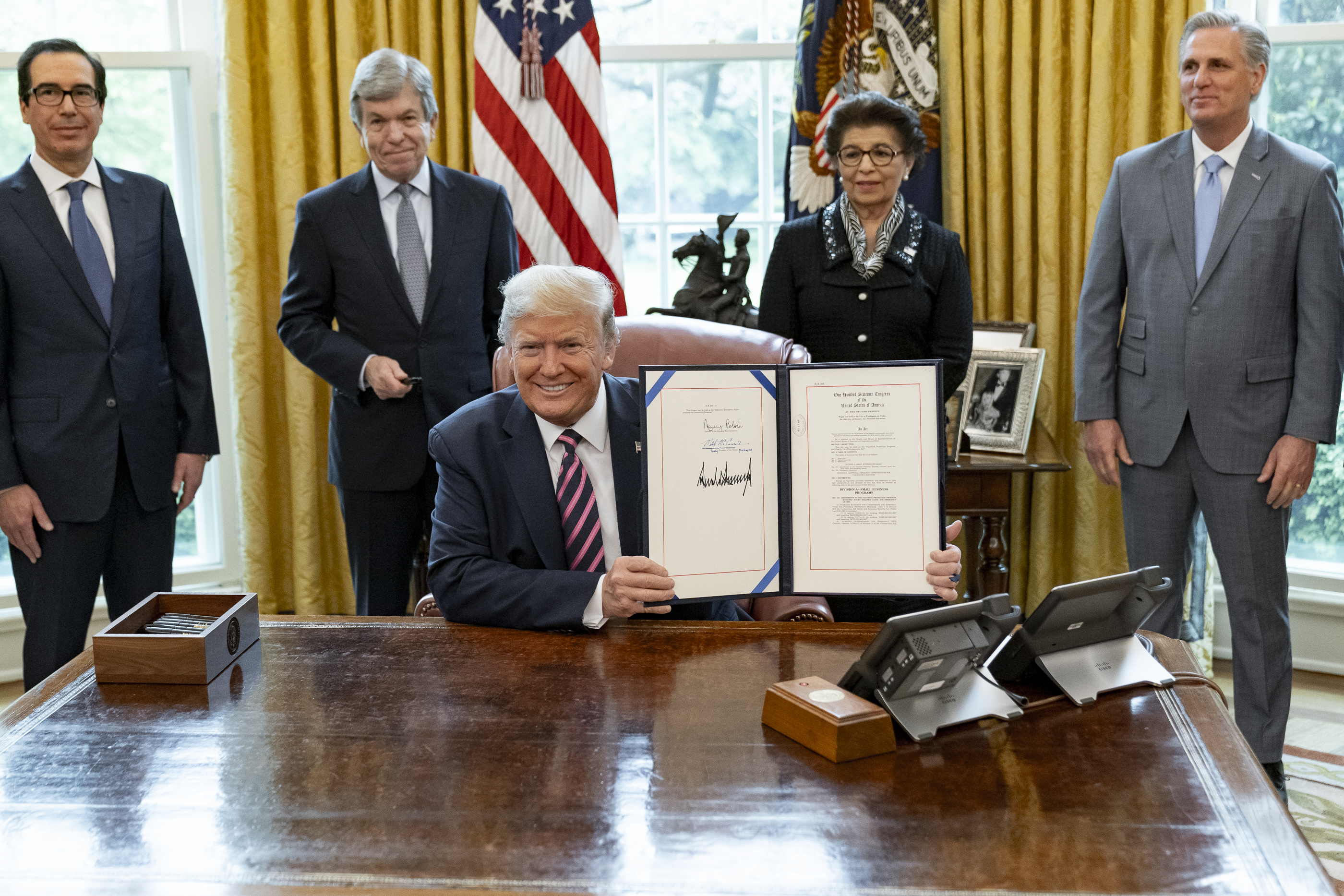 President Donald J. Trump displays his signature on H.R. 266, the Paycheck Protection Program and Health Care Enhancement Act Friday, April 24, 2020, joined by from left to right Secretary of the Treasury Steven Mnuchin, Sen. Roy Blunt, R-MO, Administrator of the U.S. Small Business Administration Jovita Carranza and House Minority Leader Rep. Kevin McCarthy, R-Calif., in the Oval Office of the White House. (Official White House Photo by Shealah Craighead)